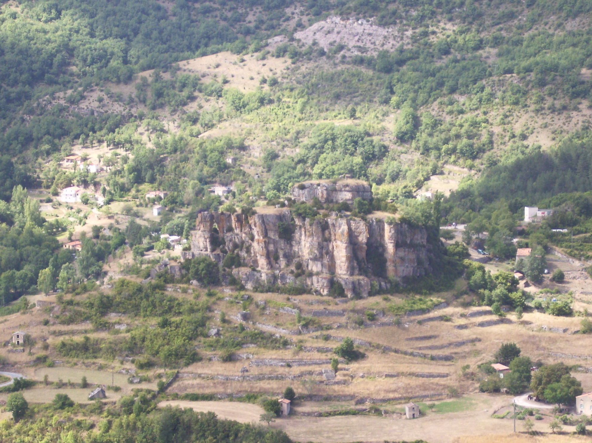 Rocher de Caylus taken from La Quille